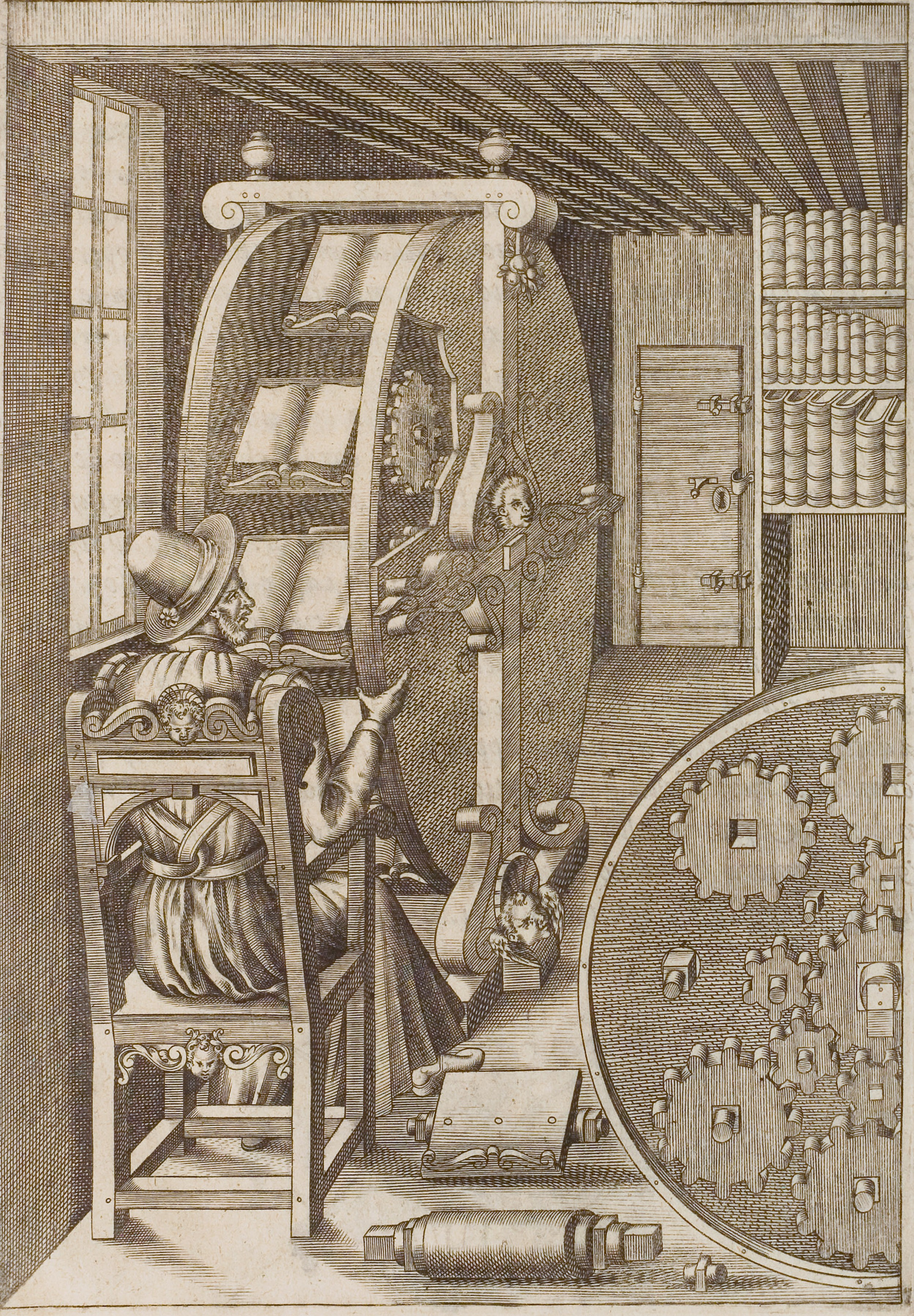 Figure CLXXXVIII in Le diverse et artificiose machine del Capitano Agostino Ramelli, an illustration of a bookwheel